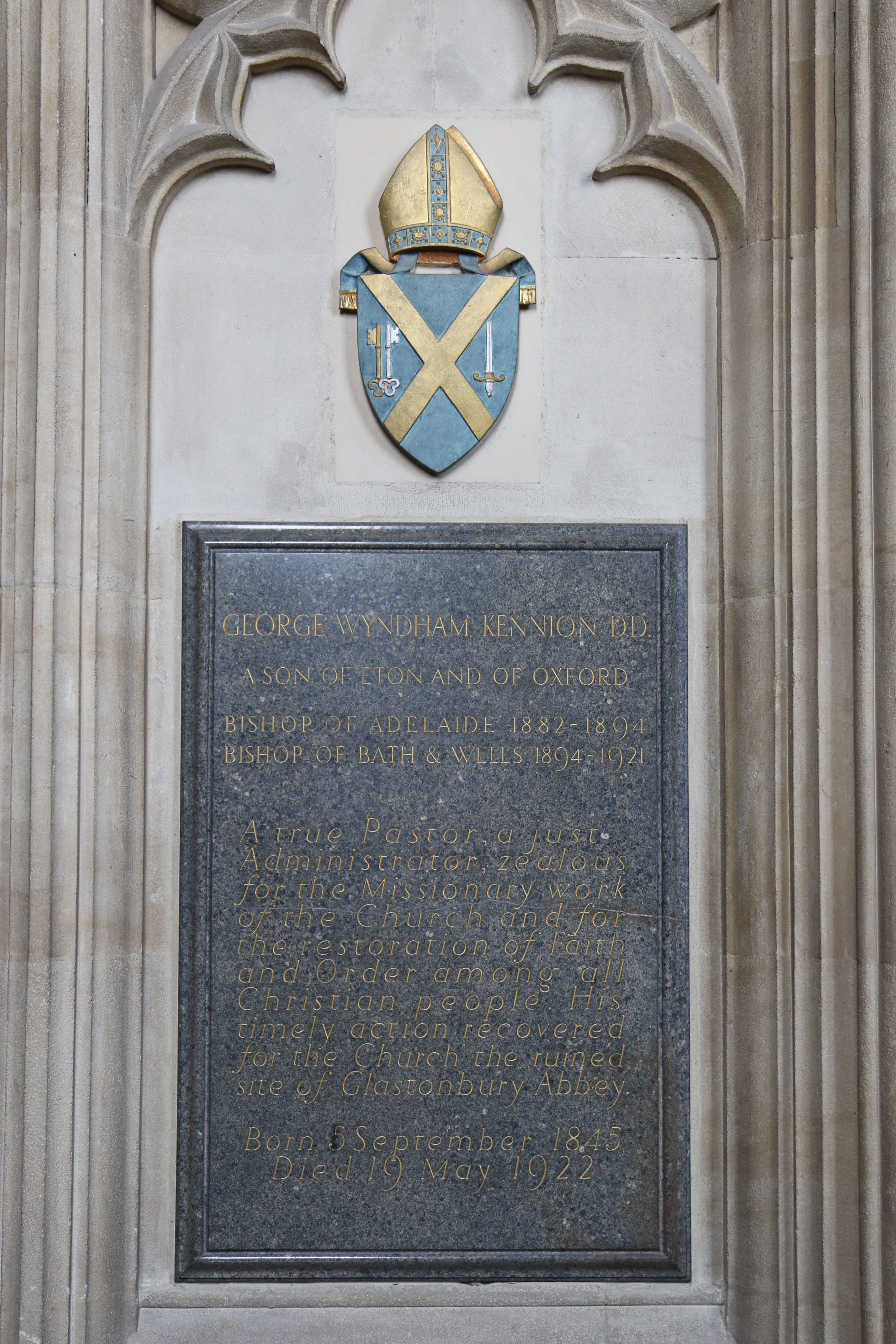 George Wyndham Kennion Bishop of Adelaide 1882 - 1894 Bishop of Bath and Wells 1894 - 1921